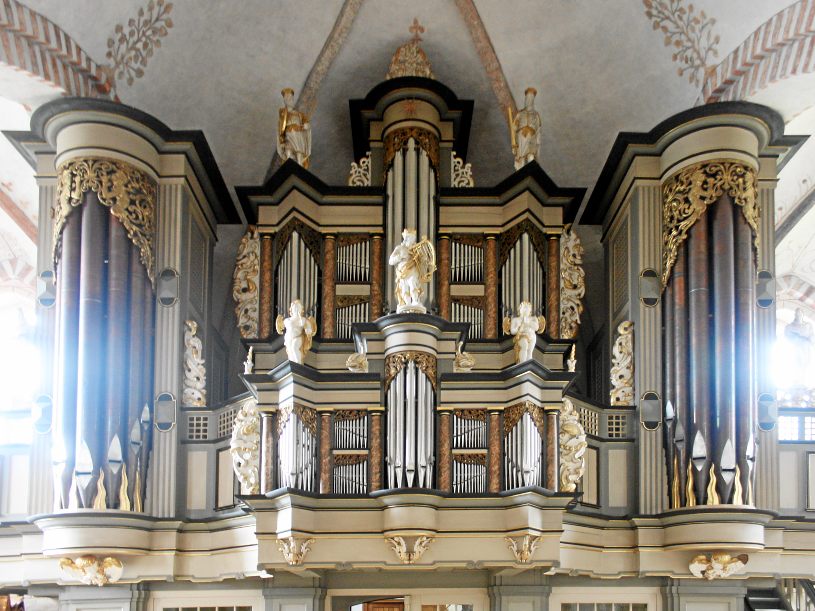 Fehmarn, Germany. Protestant parish church Saint Nicholas, pipe organ.